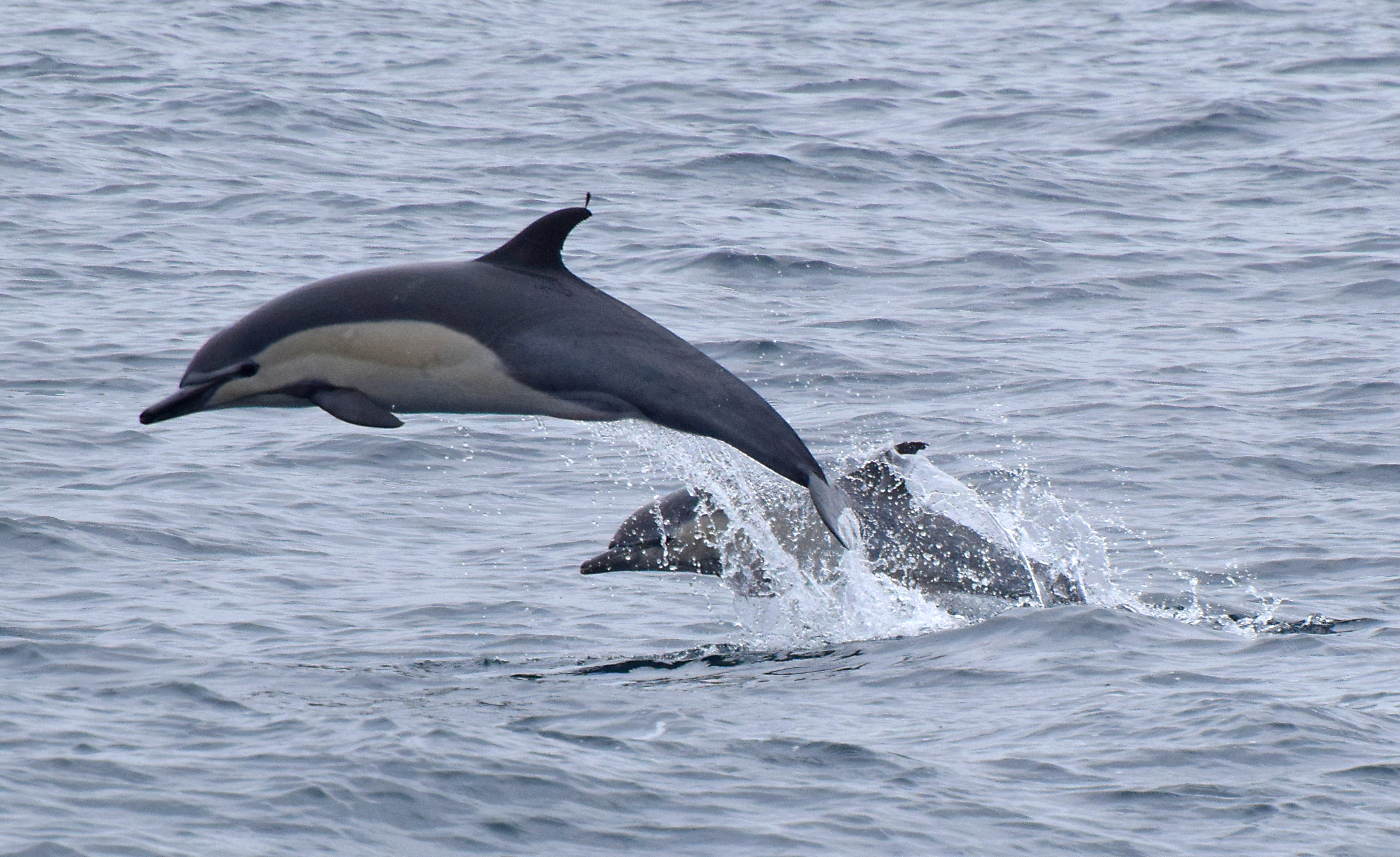 Common dolphin